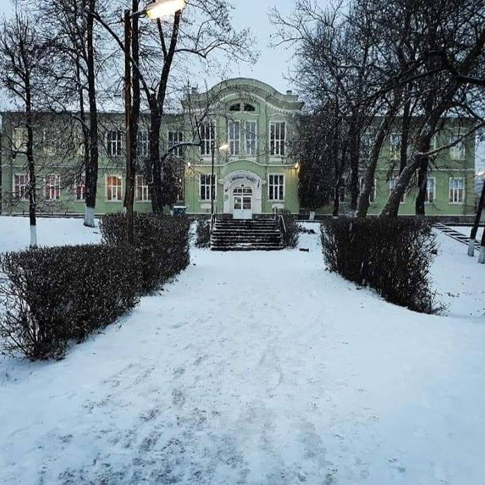 A view from the schoolyard entrance.